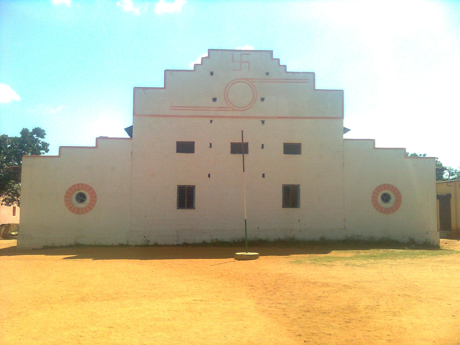 DAVANAGERE CONVENT SCHOOL